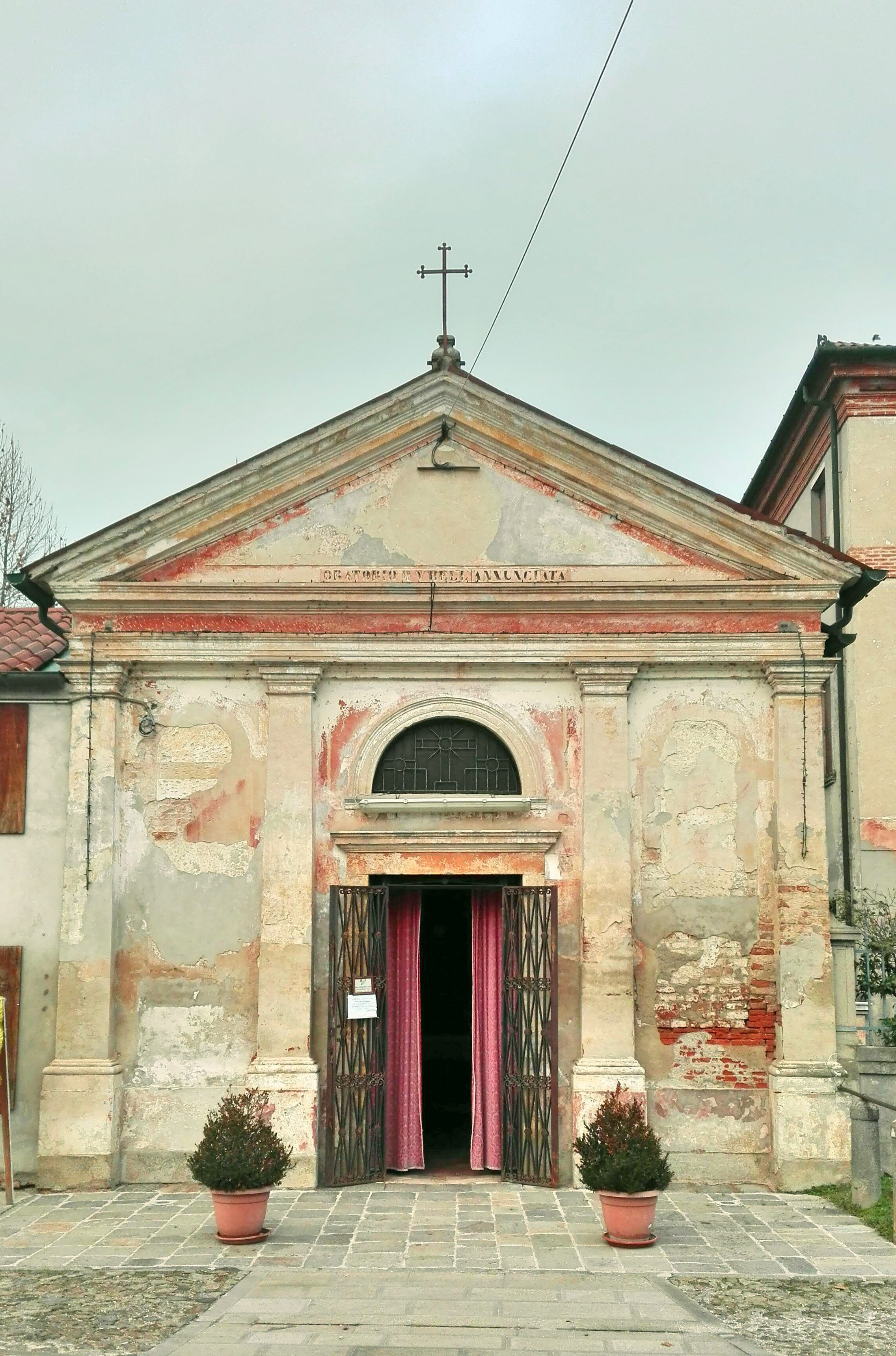 Small church of Pontemanco